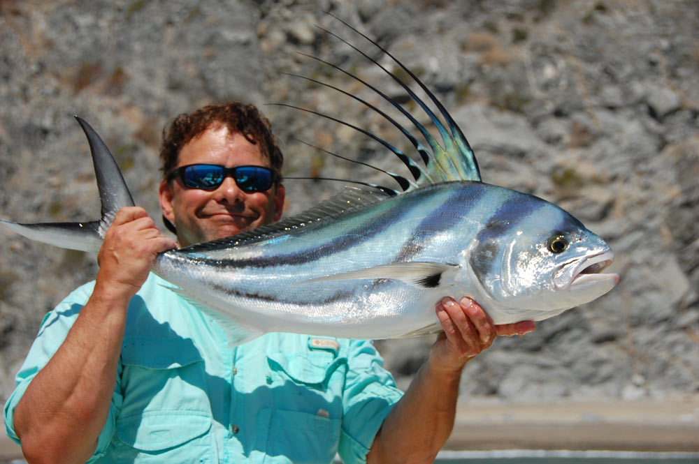 Phil Brna, a Fish and Wildlife Biologist with the Anchorage Field Office, was a 2nd Lieutenant in the Army.